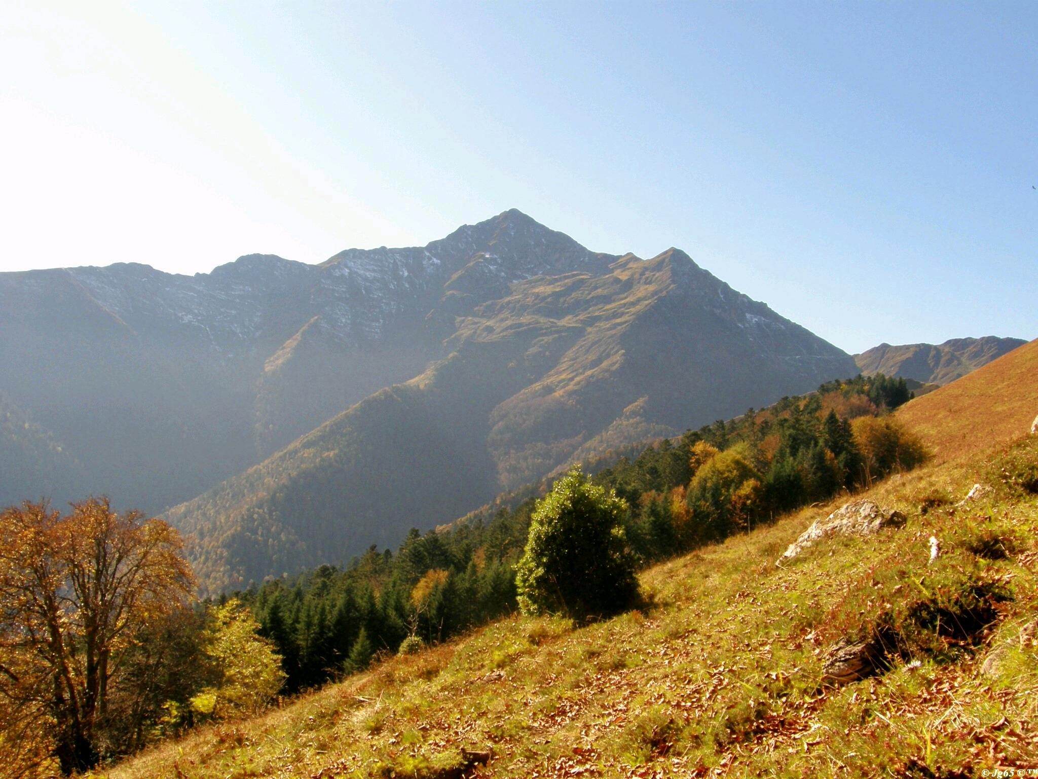 Depuis le début des crêtes de culentous (hautes pyrénées vallée de lesponne) Voir les notes 1) le Montaigu Alt 2339 m 2) Pene Mallo Alt 2118 m 3) Col de Tos Alt 1807 m 4) Névé de cérétou 1481 m